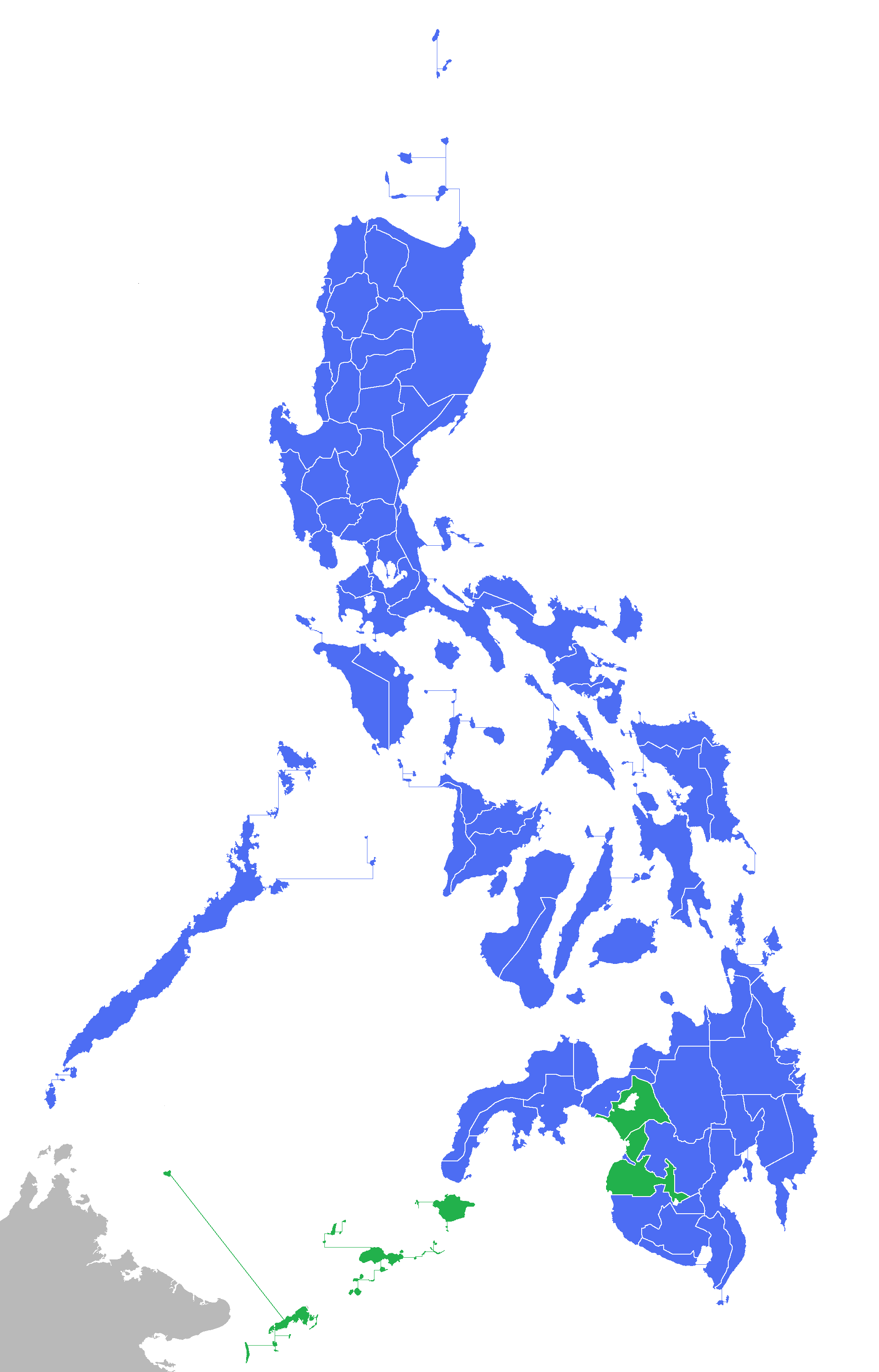 Dominant religion by province, Christianity (blue) and Islam (green).